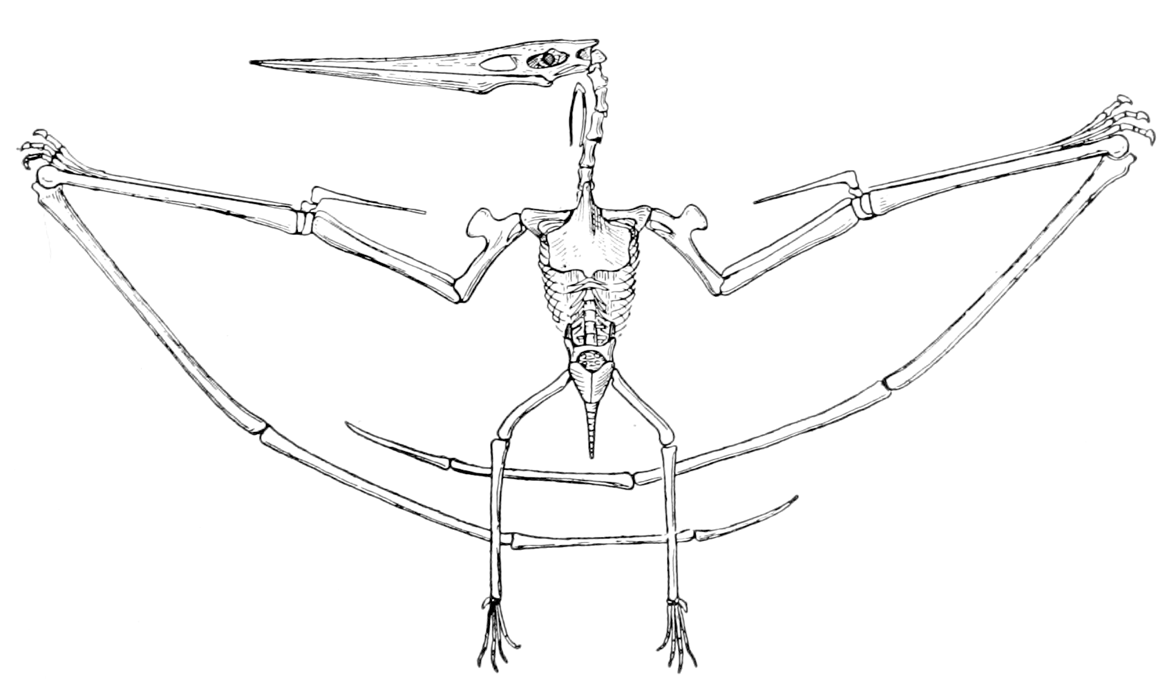 Illustration of Nyctosaurus skeleton from The Osteology of the Reptiles (1925)